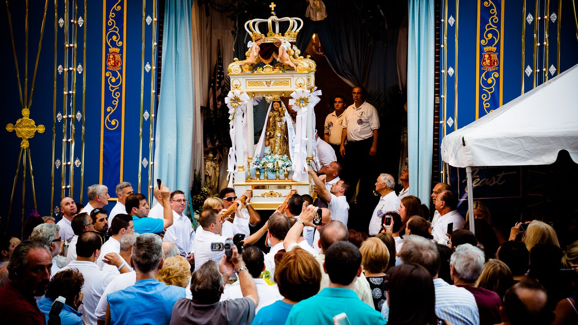 2013 08 Fisherman's Feast Opening Night and Blessing of the Waters